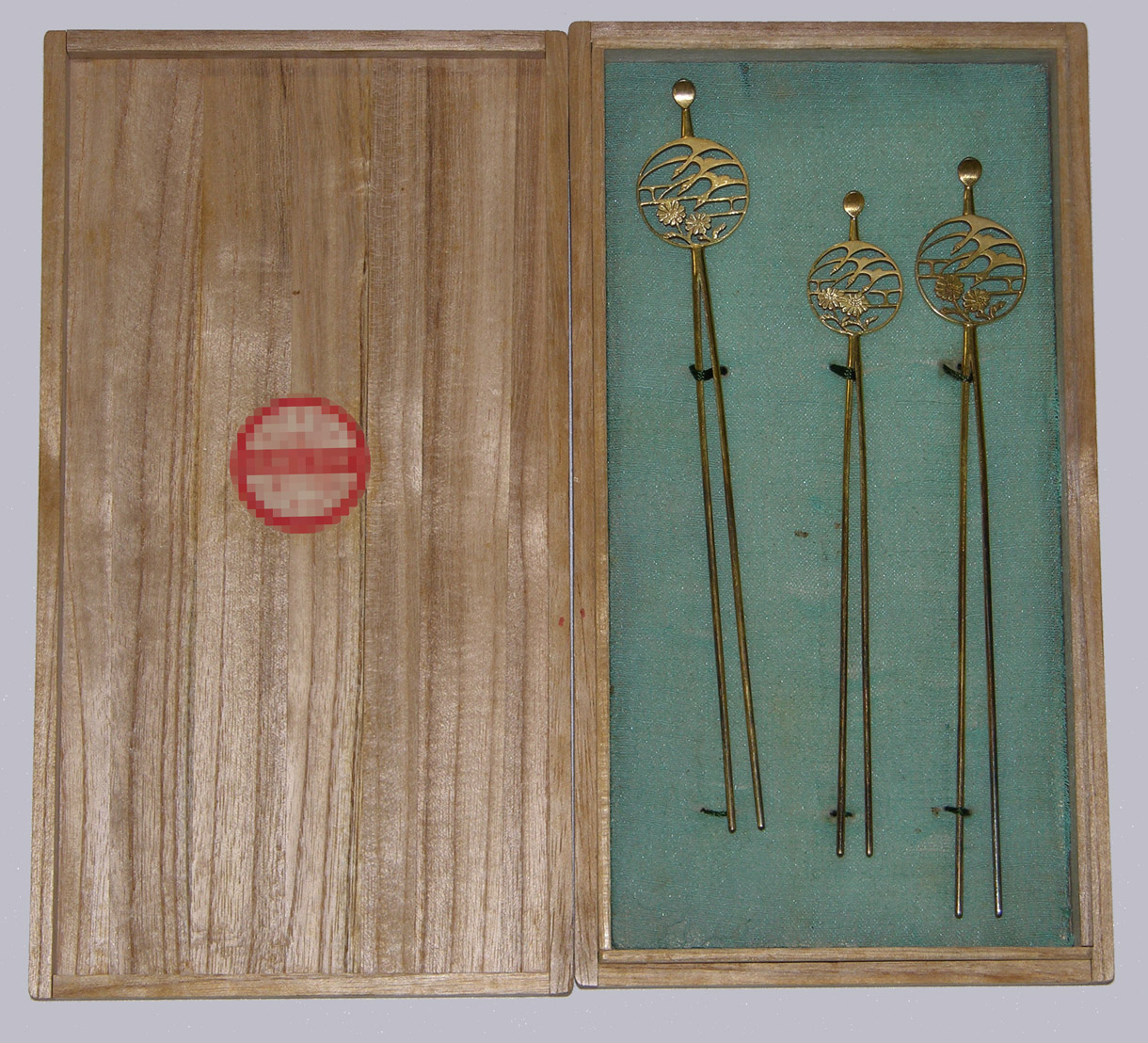 Made from gold plated brass. Period unknown.